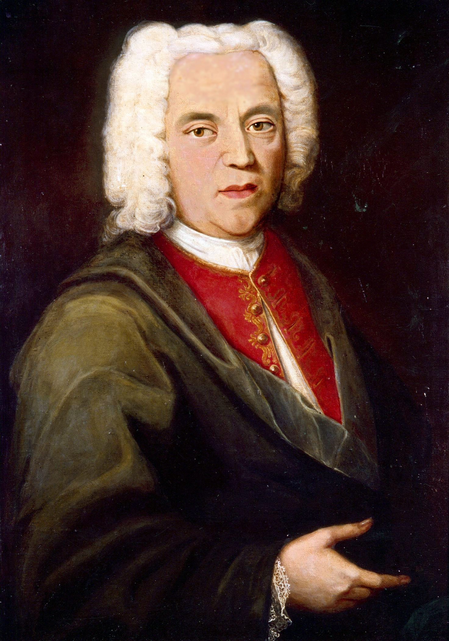 Painting 18th century, foto made by Farina gegenueber 2000.